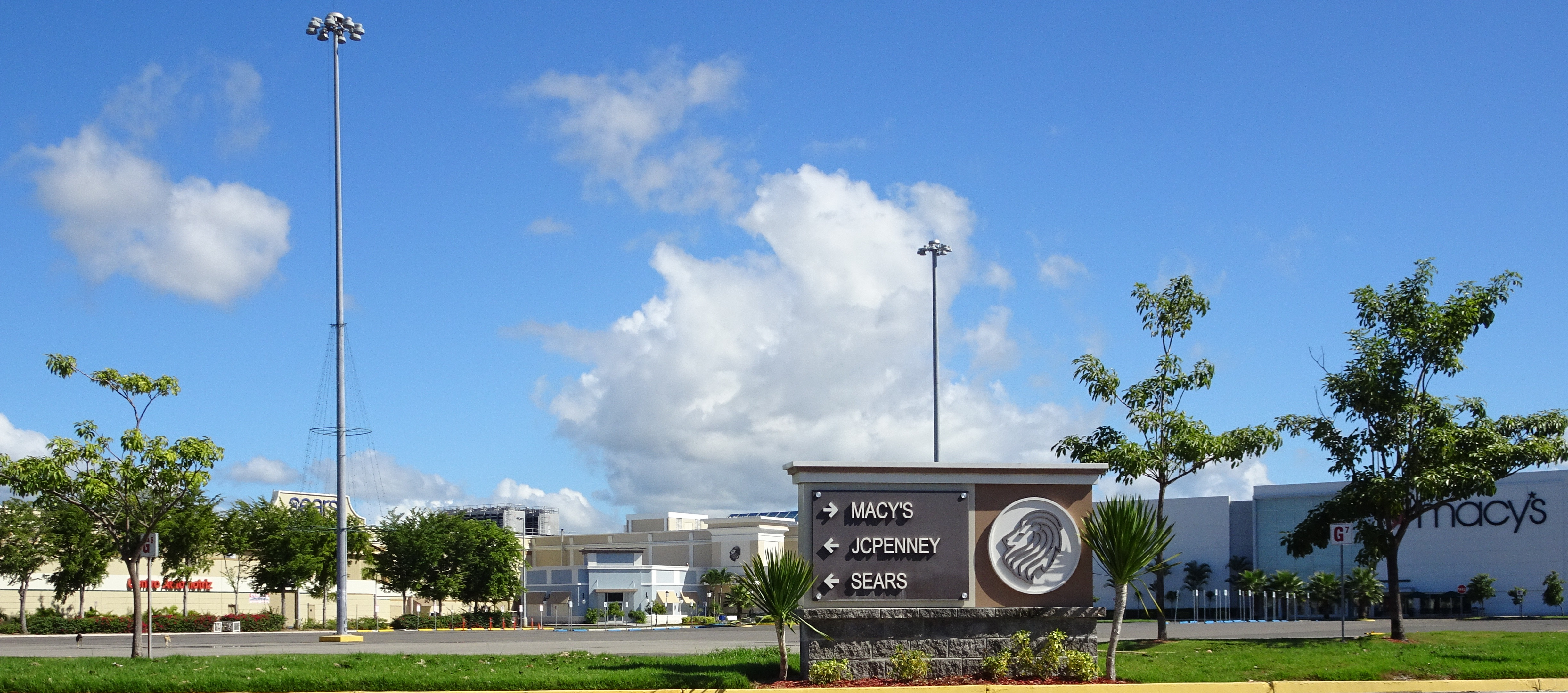 Plaza del Caribe Mall, Carreteras PR-2 y PR-12, Barrio Playa, Ponce, Puerto Rico, mirando al norte (DSC02925B)